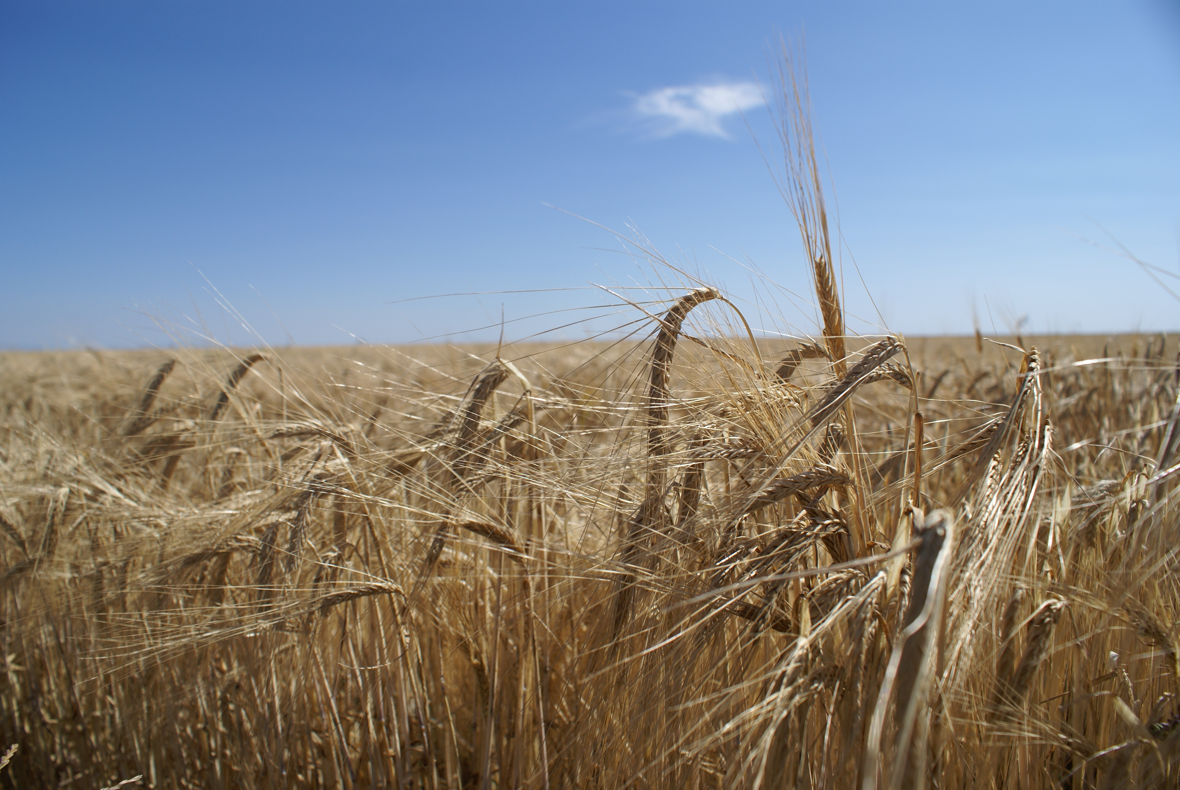 Ears of barley in summer, ready to harvest them.